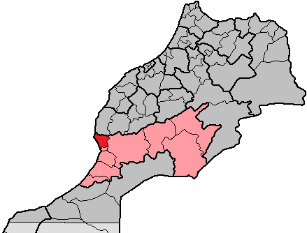 Location of the préfecture Agadir-Ida-Ou-Tanane within the region Souss-Massa-Drâa, Morocco. In total, Morocco has 16 regions, subdivided into 62 provinces and 13 prefectures.